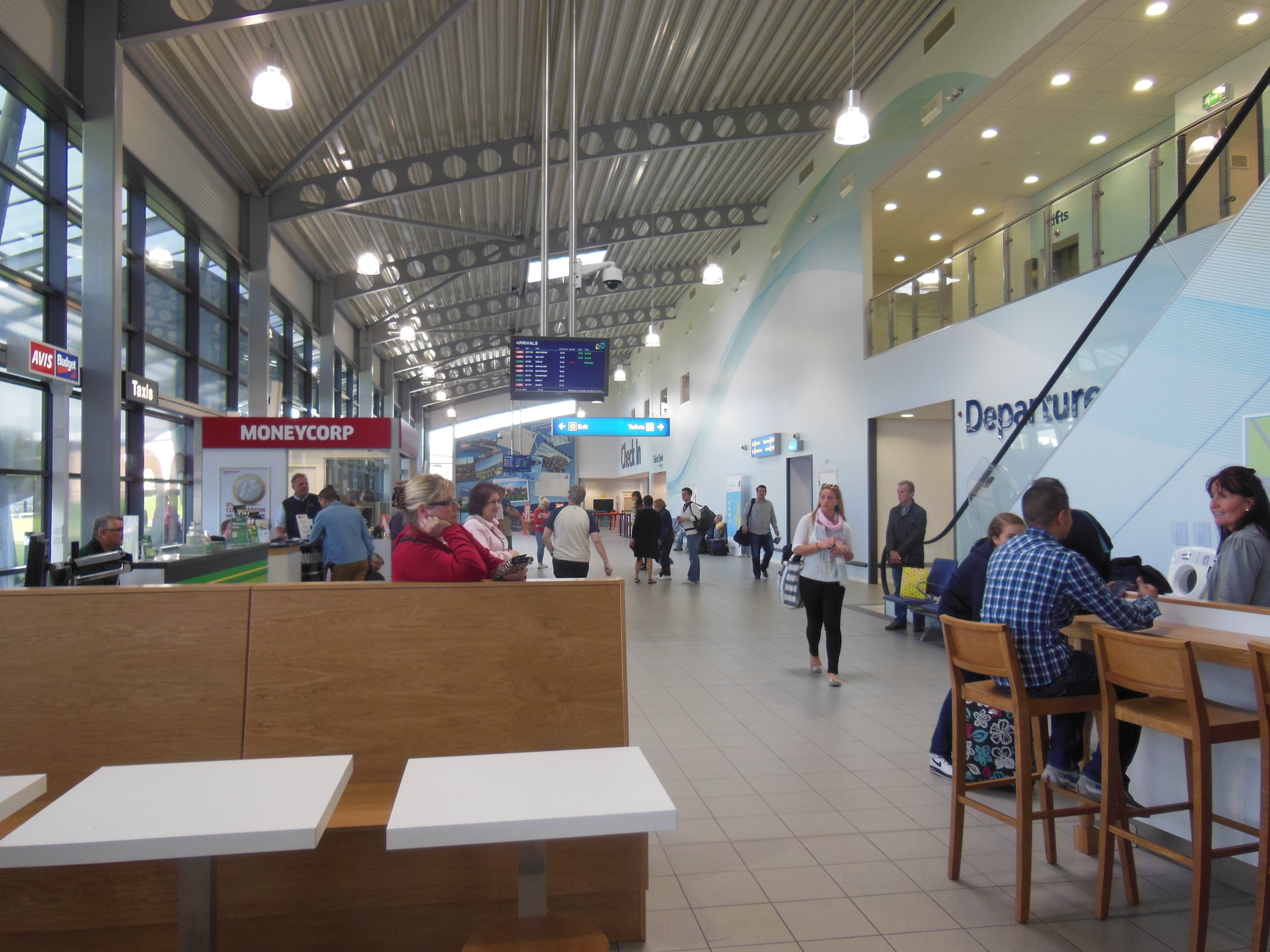 Southend Airport terminal building, looking south from arrivals to checkin. For more information, see Wikipedia article Southend Airport.